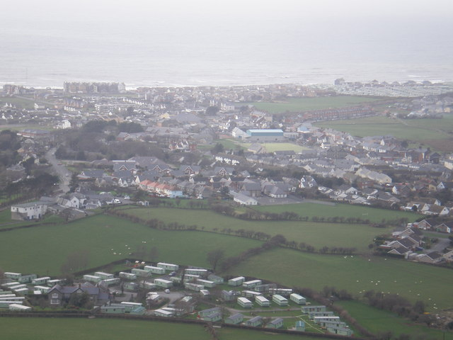 Tywyn from Craig y Barcut rocks.